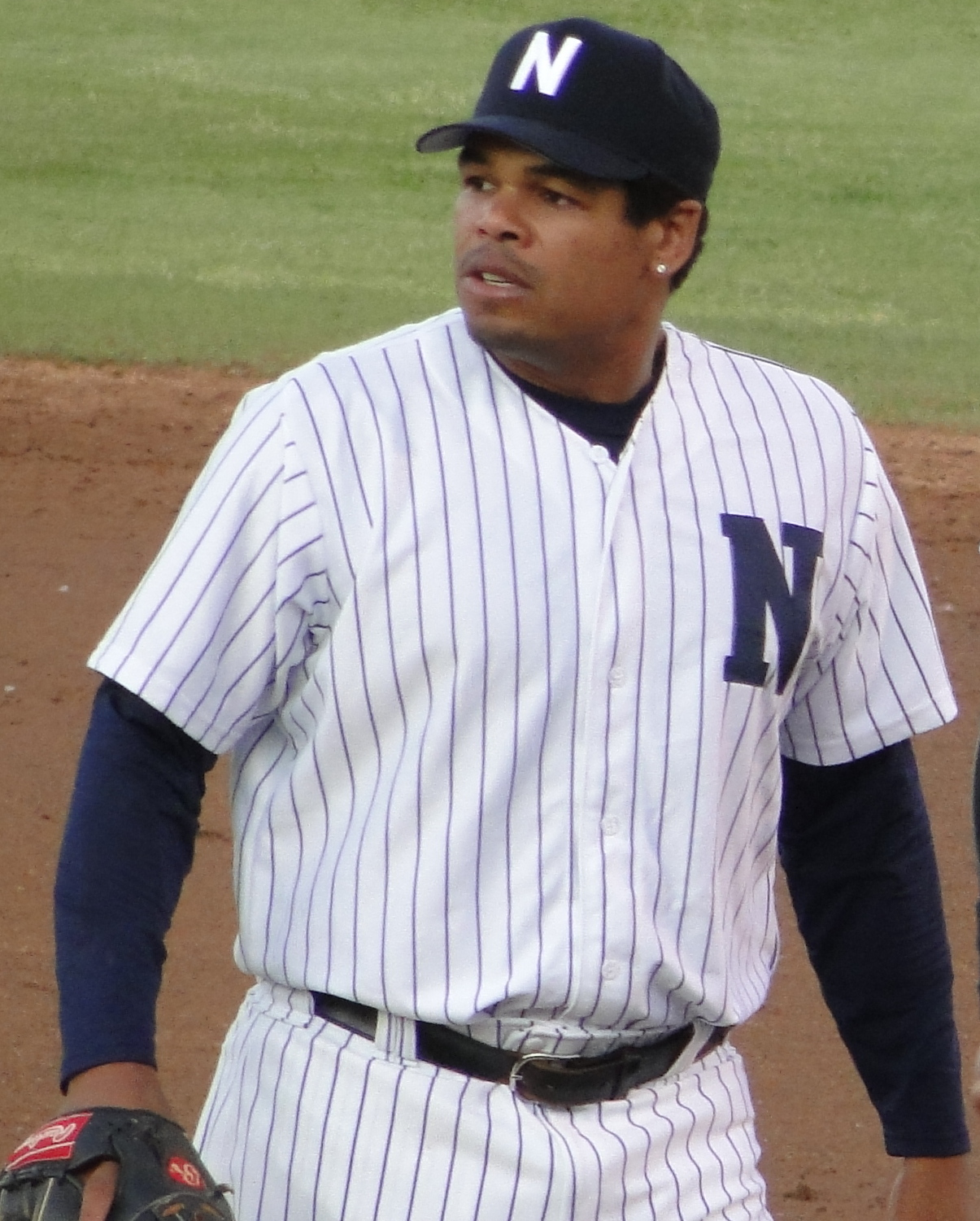 Jose Canseco of the Worcester Tornadoes against Newark Bears.